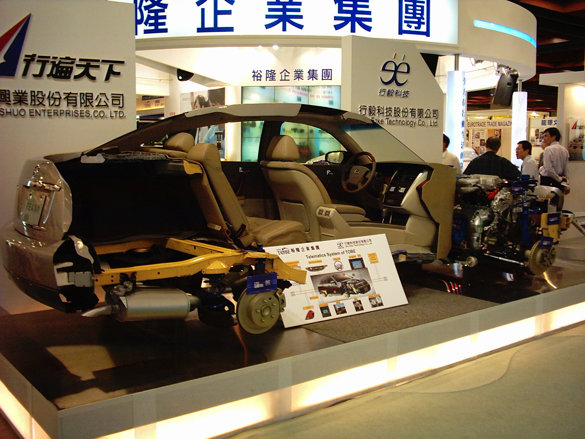 Yulon Group anatomized Nissan TEANA to exhibit the structure of TEANA.